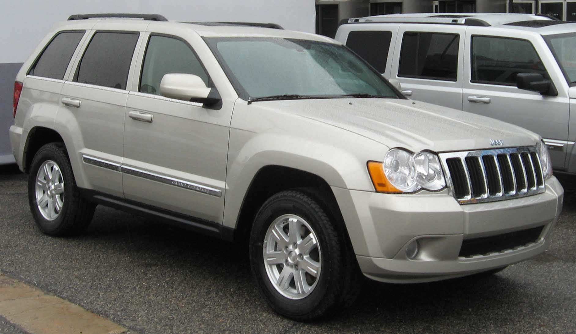 2008 Jeep Grand Cherokee photographed in New York City, USA.